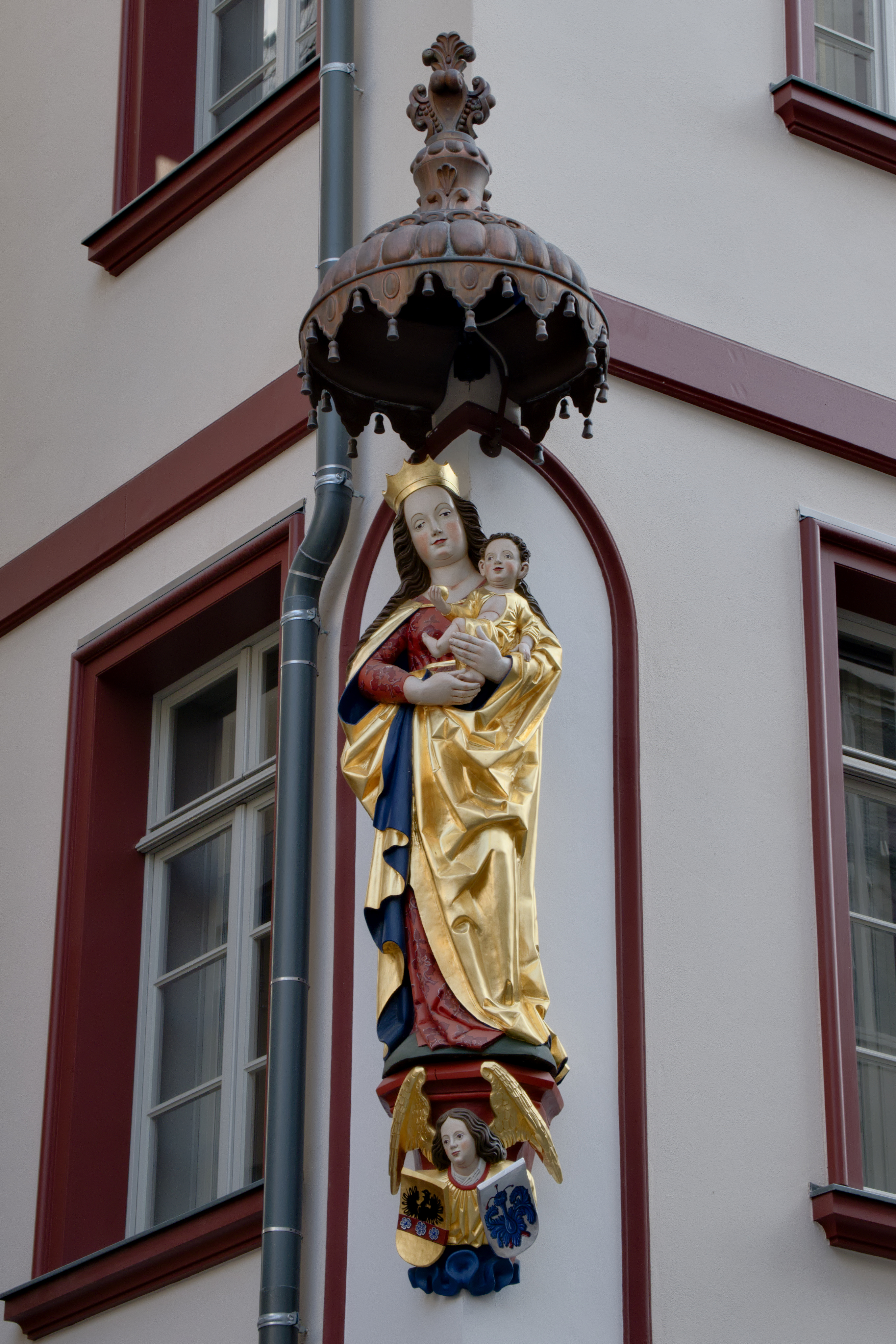 Madonna sculpture at the reconstructed historic building "Goldenes Lämmchen". Frankfurt am Main, Germany.